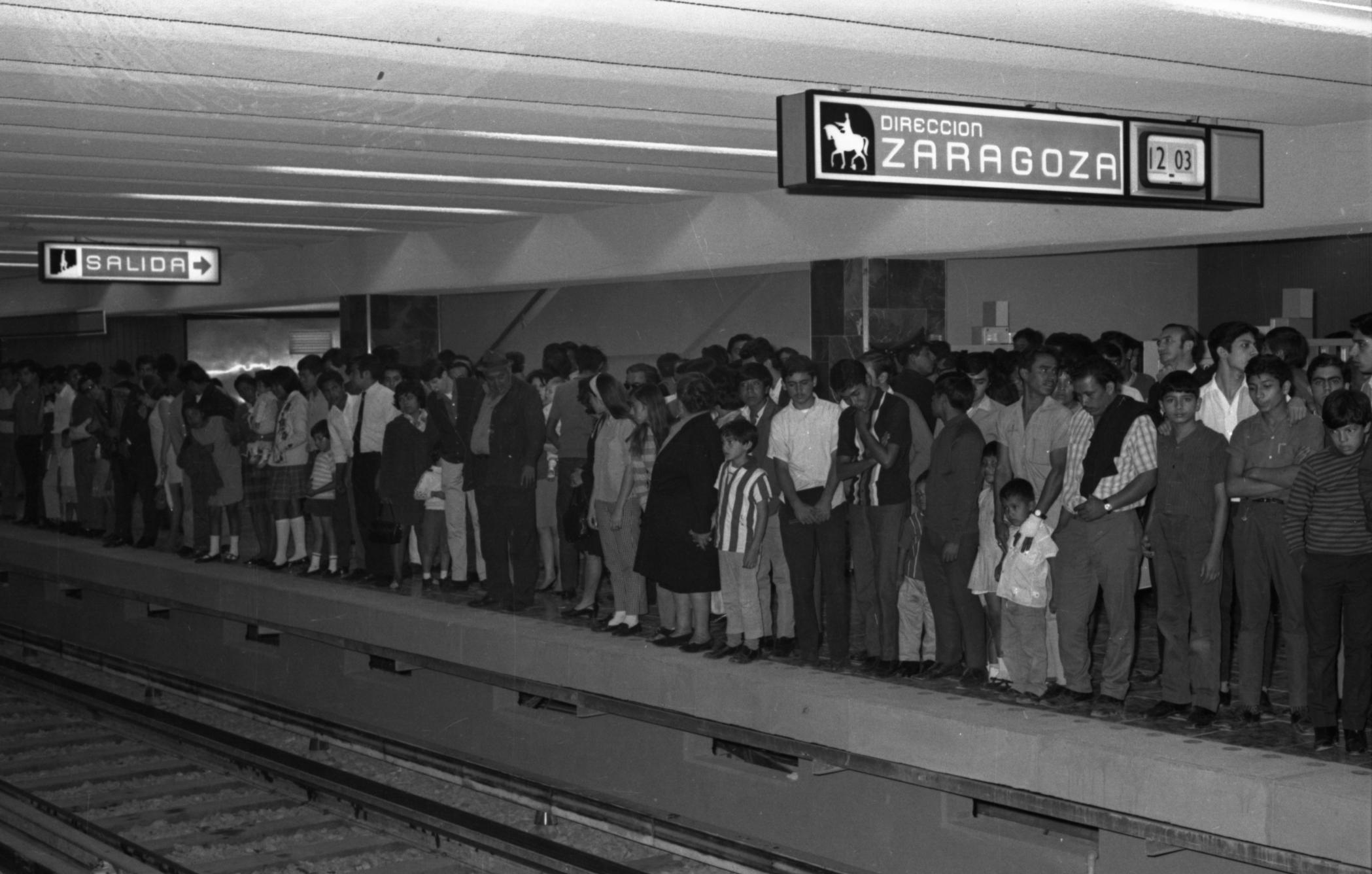 Persons waiting for the subway in the first days after opening of Mexico City Subway, Mexico City, Mexico.